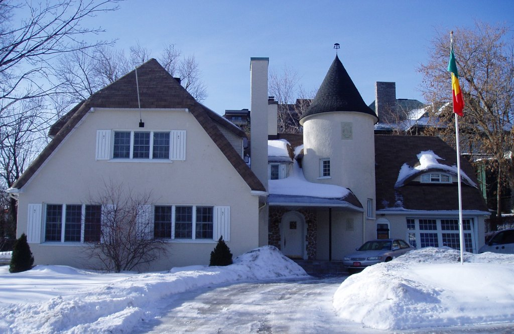 Embassy of Mali in Ottawa, Canada